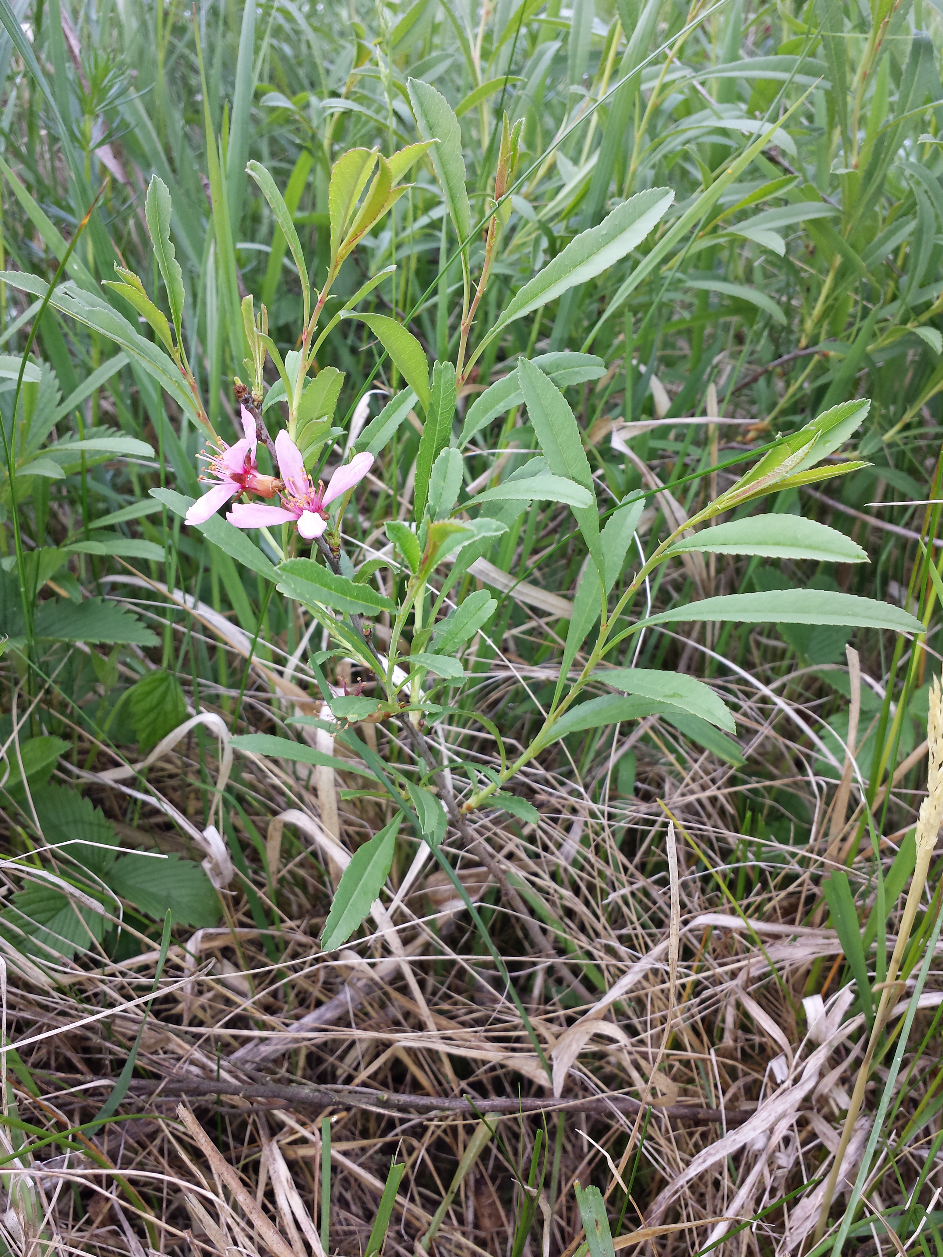 Habitus Taxonym: Prunus tenella ss Fischer et al. EfÖLS 2008 ISBN 978-3-85474-187-9 Location: Dunajovické kopce, Jihomoravský kraj, Czech Republic - ca. 275 m a.s.l. Habitat: dry grassland